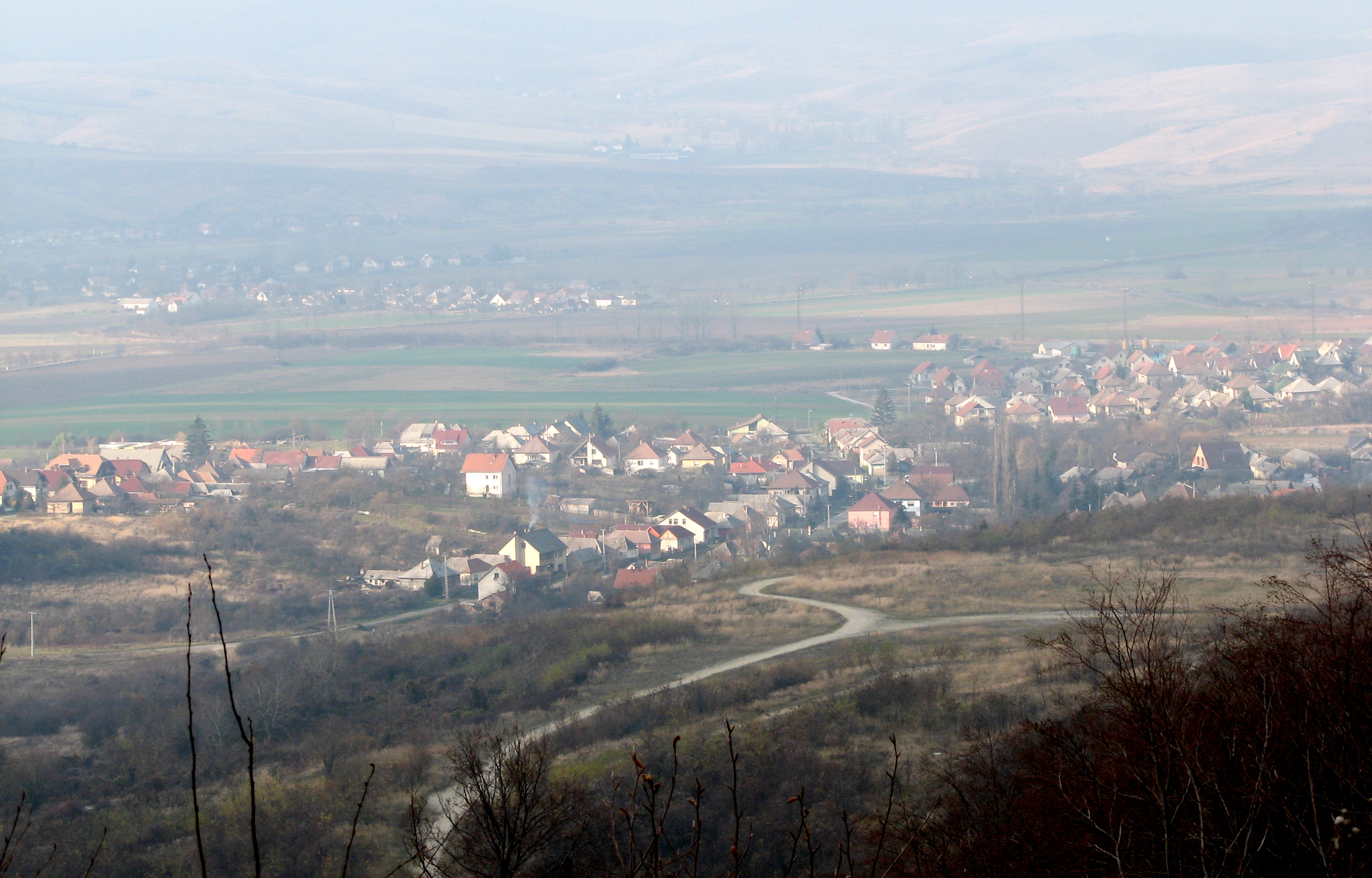 Bélapátfalva from the side of Bél-kő hill